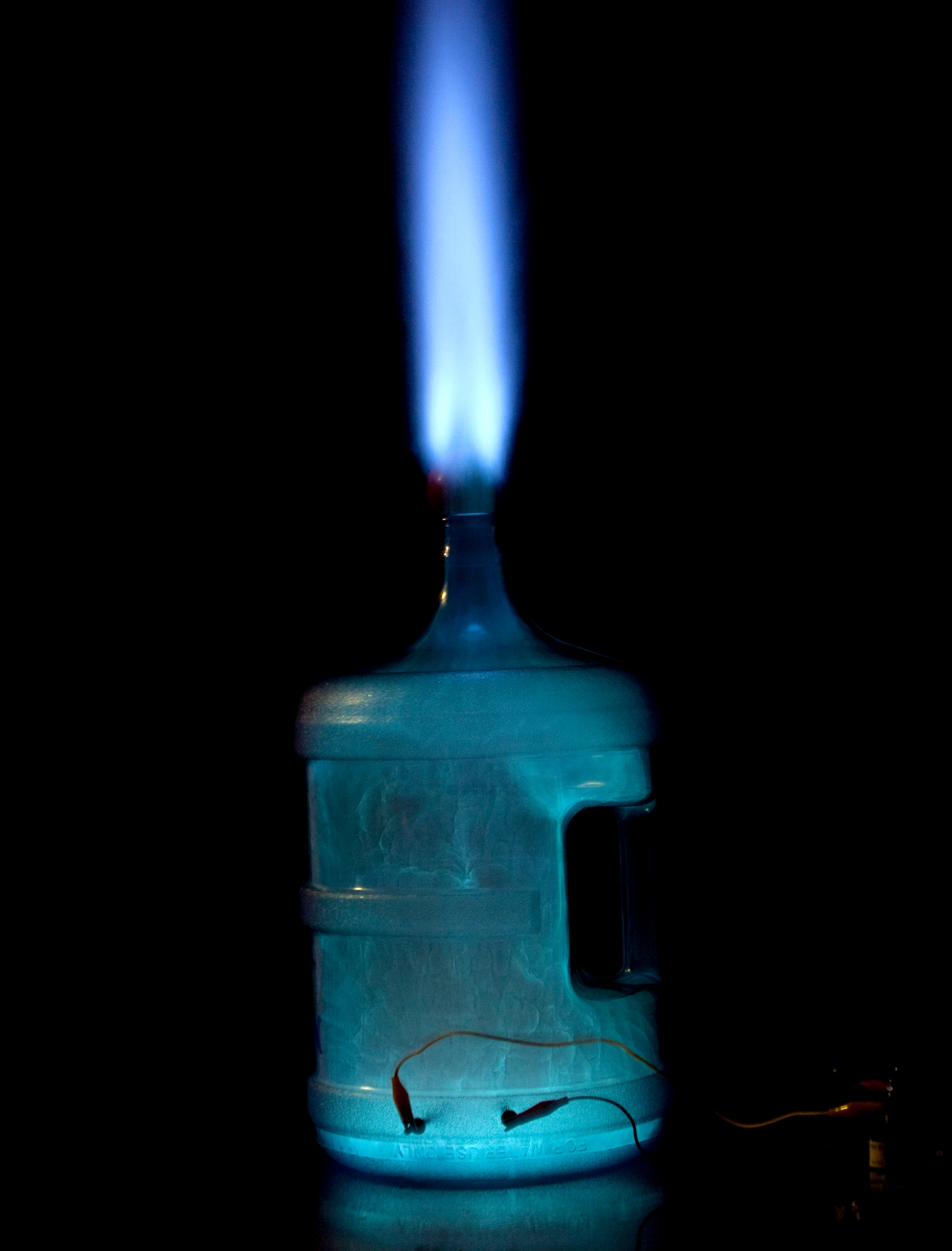 Combustion of an ethanol vapour + air mixture in a water cooler bottle. Visible at the bottom of the image are the ignition leads. The top of the image shows a blast of light blue flame which has dislodged a soft toy ball from the neck of the bottle.